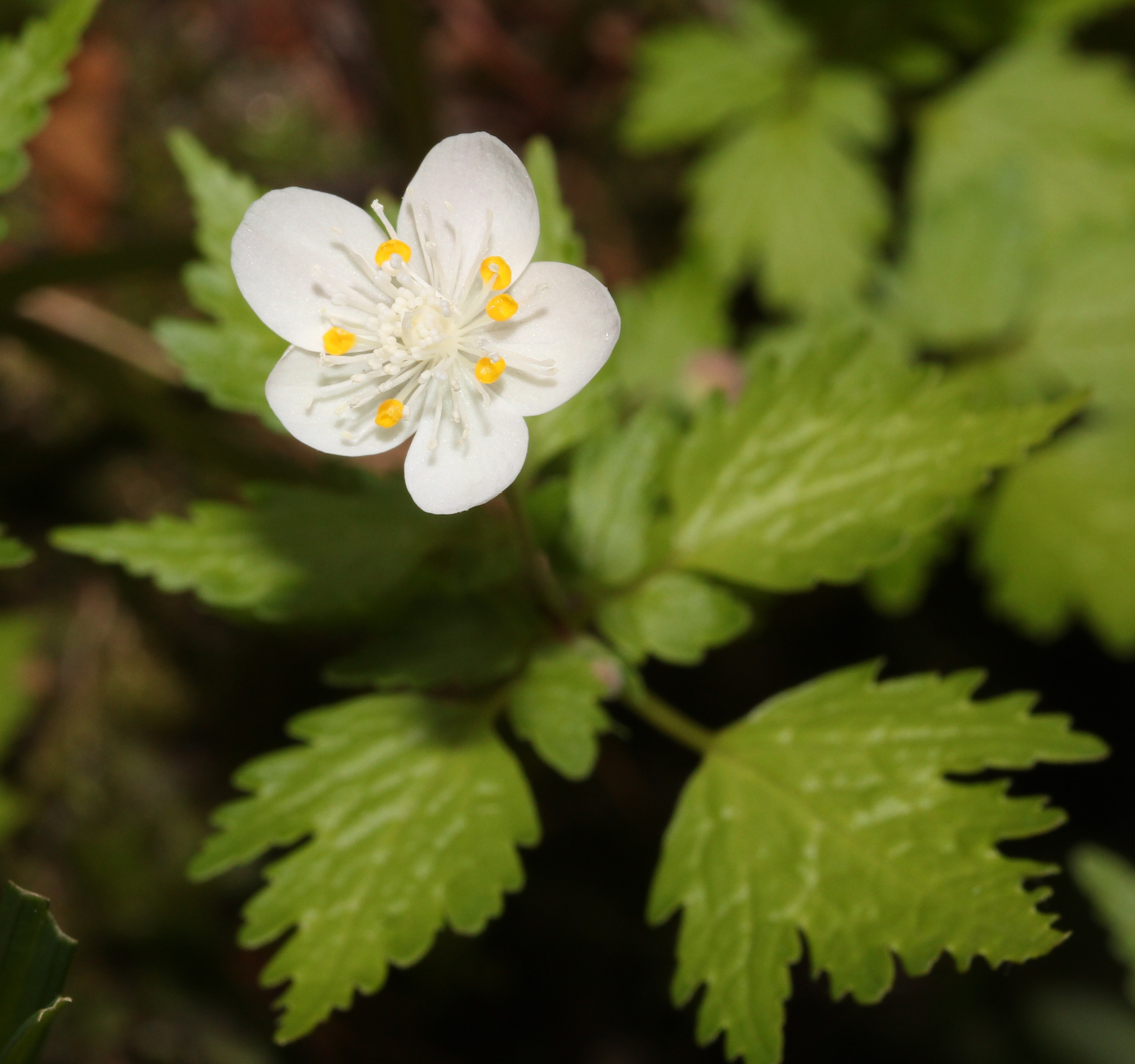 Dichocarpum stoloniferum in Maibara, Shiga prefecture, Japan.